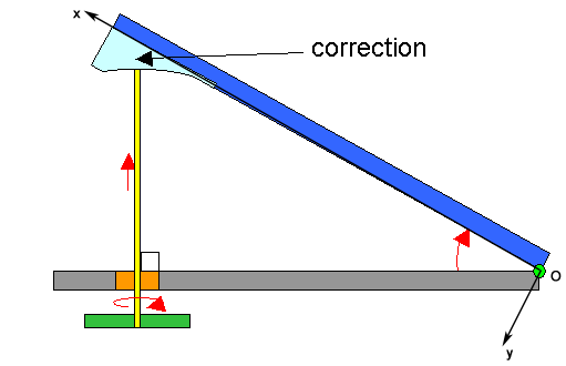 Corrective cam added to the original Scotch mount.